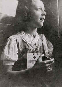 Swiss Red Cross: Children transport from Vienna to Switzerland. Girl from Vienna on its journey to Switzerland.